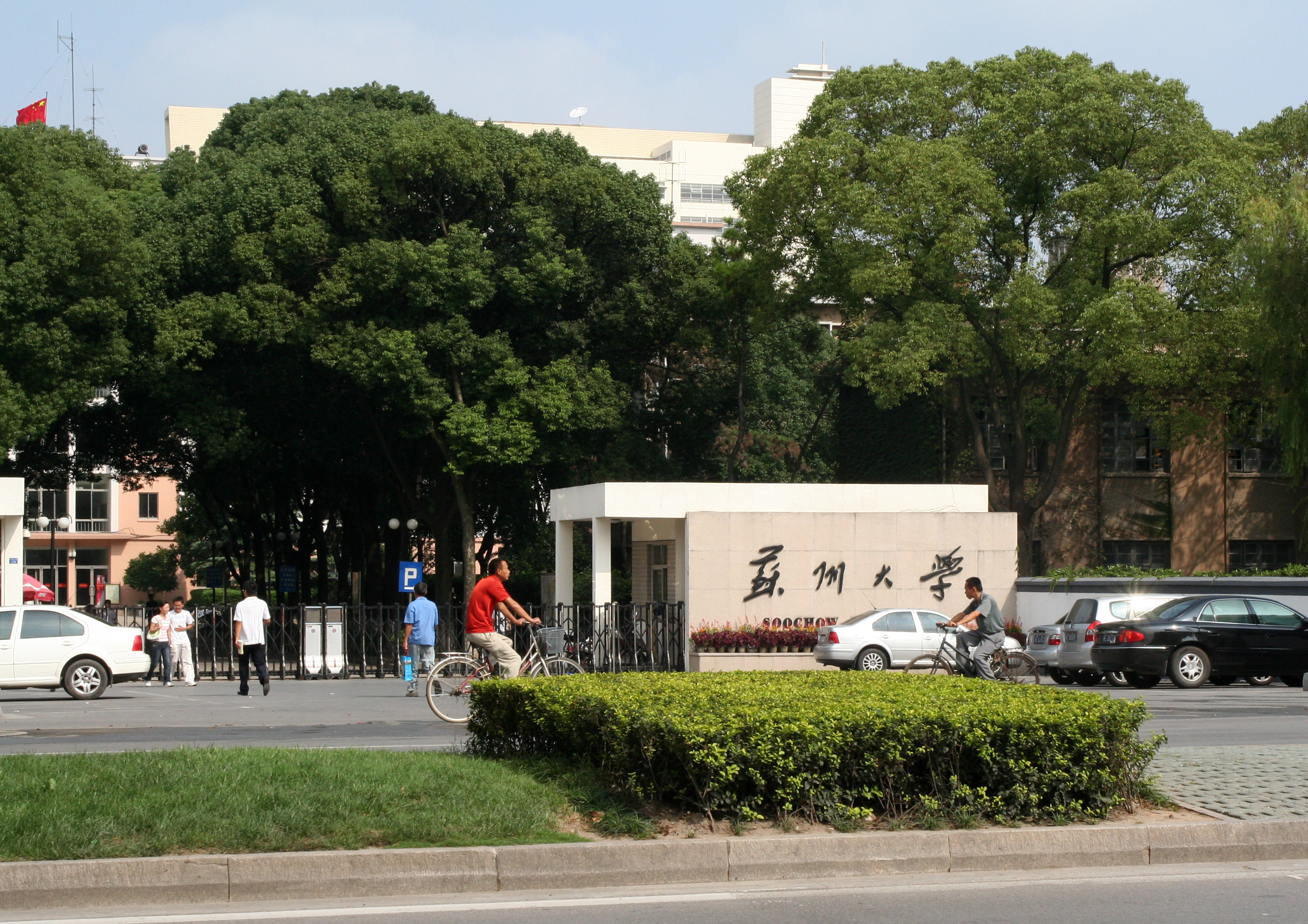 The main gate of Soochow University.